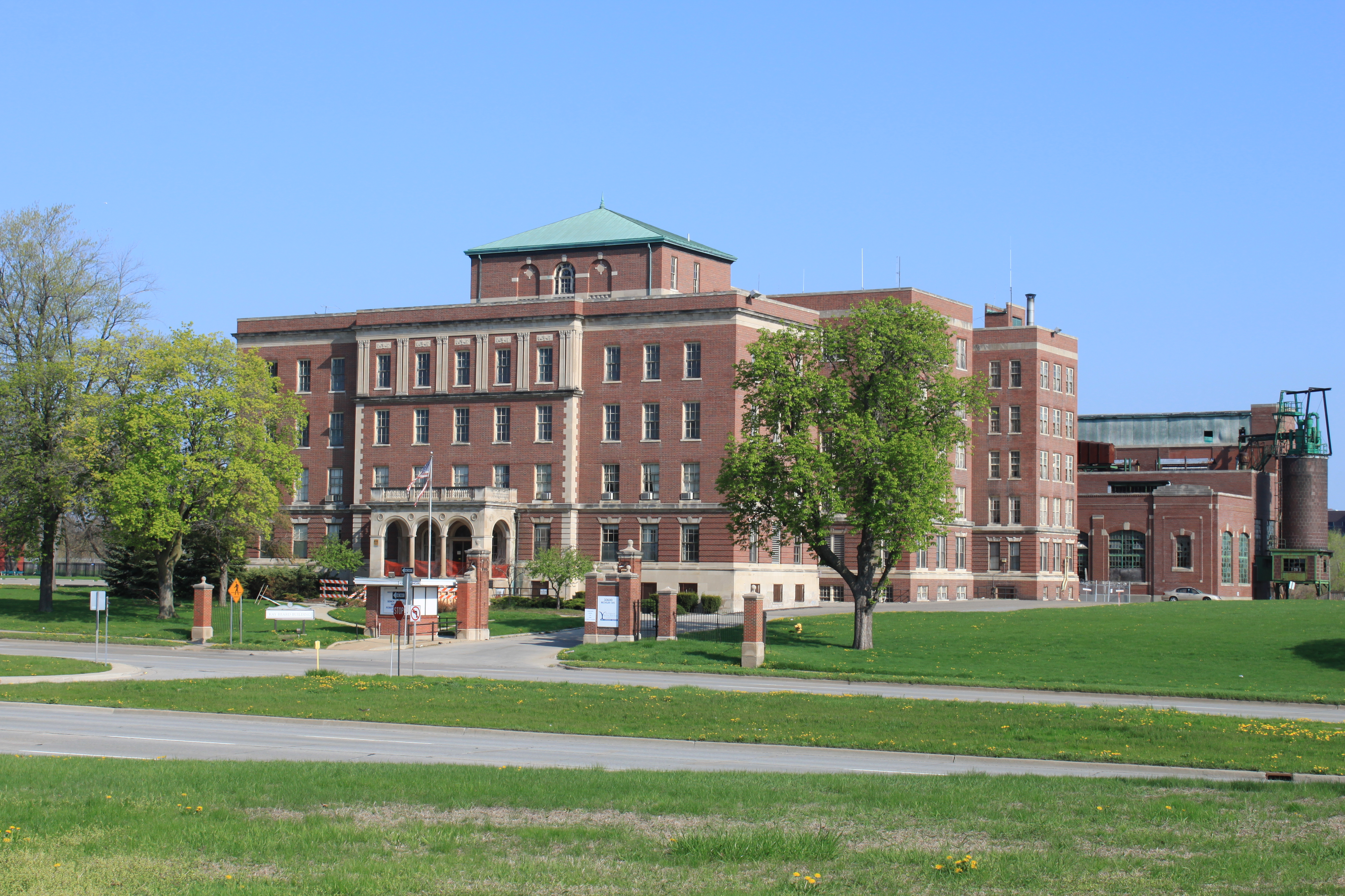 Kay Beard Building, 30712 Michigan Avenue (U.S. 12), Westland Michigan. The building was formerly the Eloise Psychiatric Hospital.